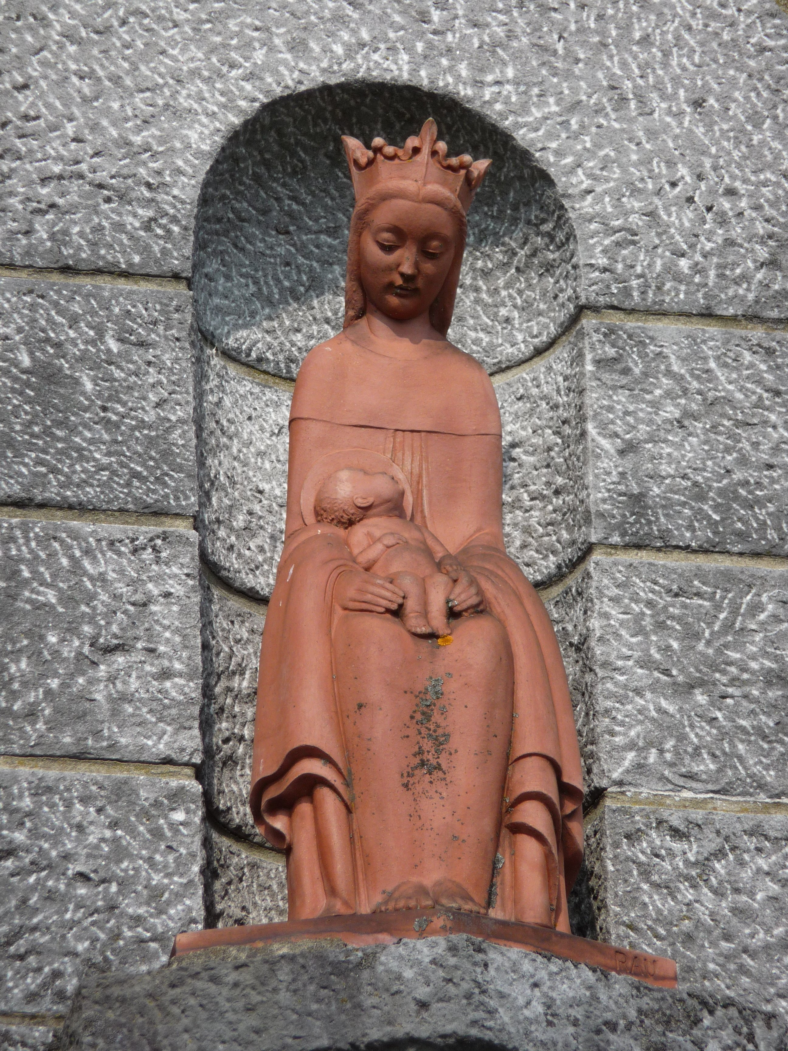 madonna with child statue above the entrance to astrid chapel in Küssnacht am Rigi (Switzerland)